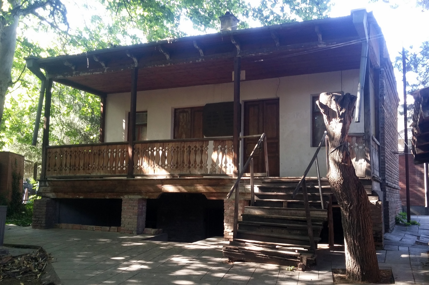 Avlabari printing office